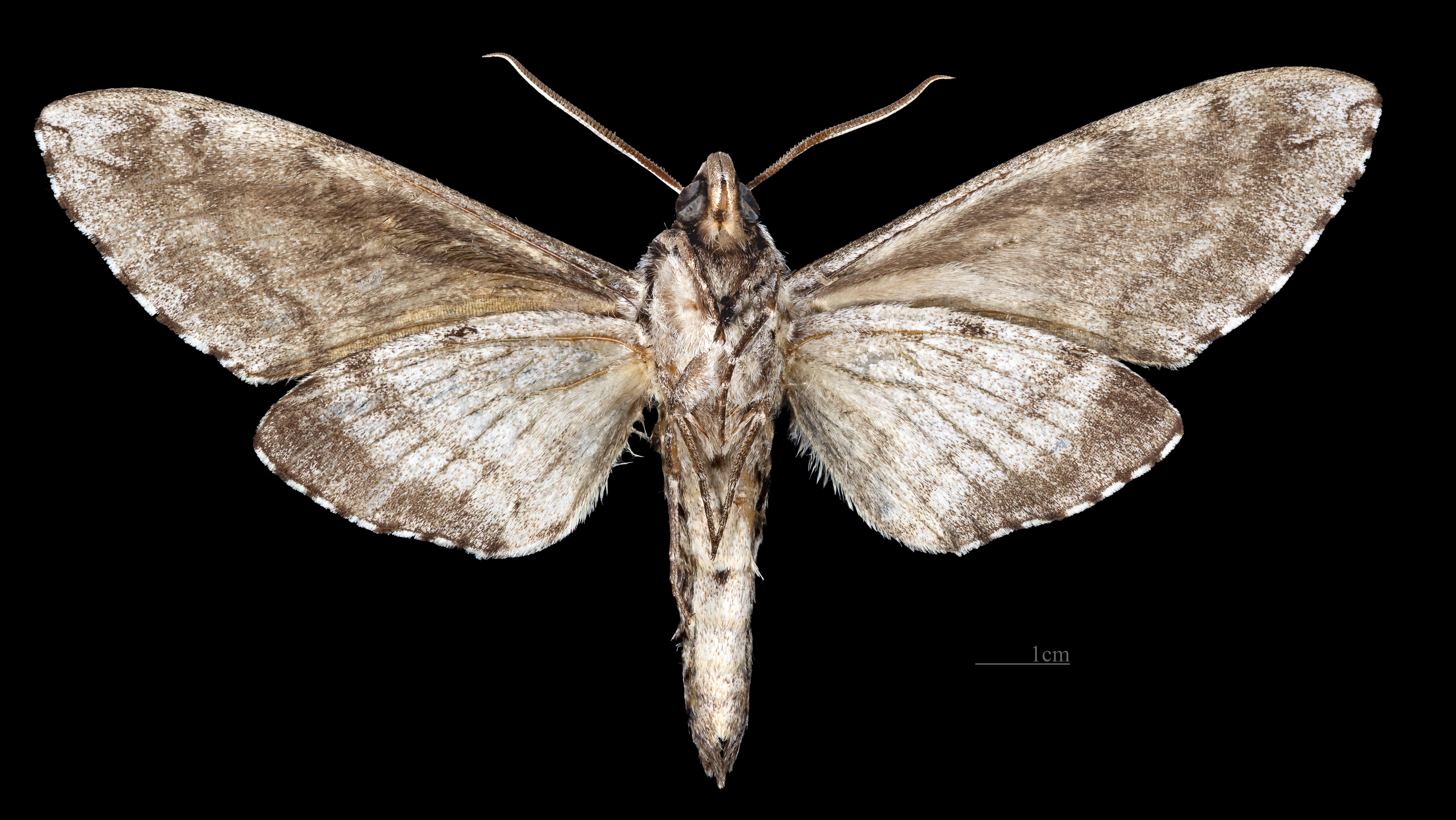 Ceratomia sonorensis - △ Ventral side Collection of the Mathematician Laurent Schwartz